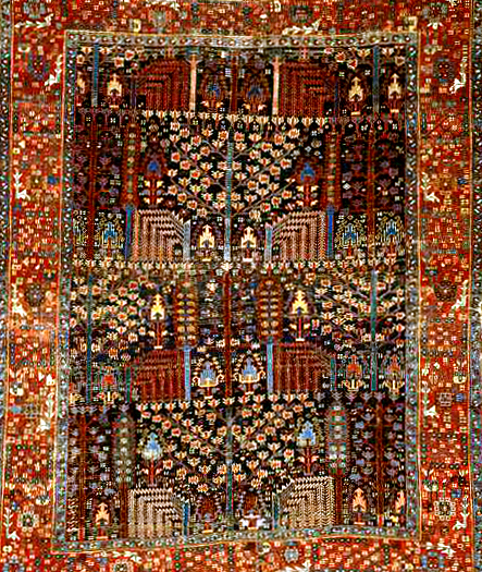 Karaja carpet from South Azerbaijan, 19 century. Origin: North West Persia, Azerbaidjan, 1st half 19th century Size: ca. 192 x 164 cm Sides and ends not original, pile low with visible traces of age.